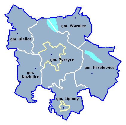 Pyrzyce County - administrative divisions